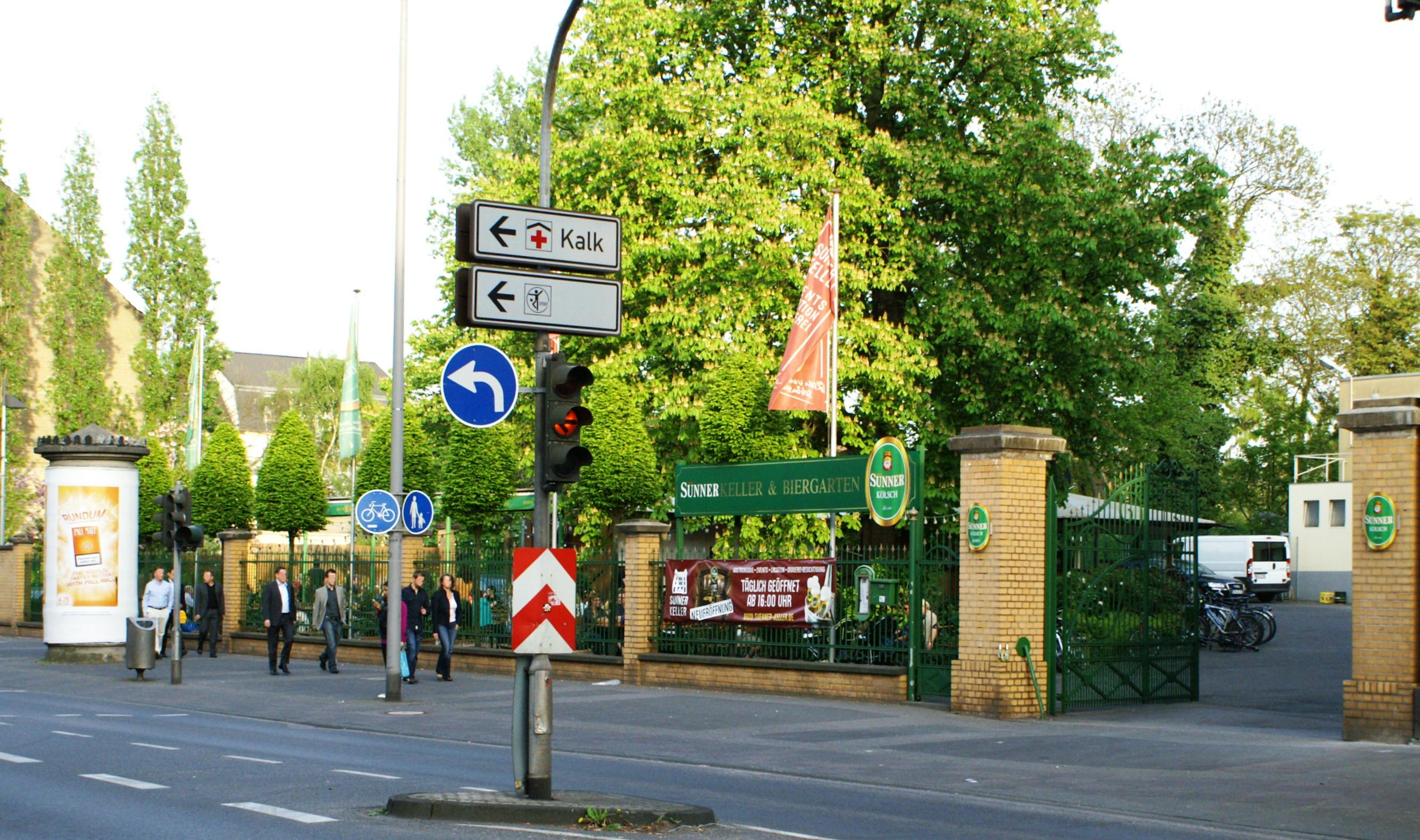 Sünner-Brewery-Beergarden, Cologne-Kalk